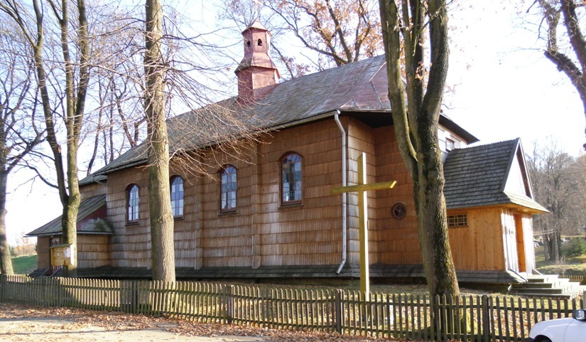 The former Greek Catholic church of St. George in Lalin. Today, the Polish Roman Catholic Church.